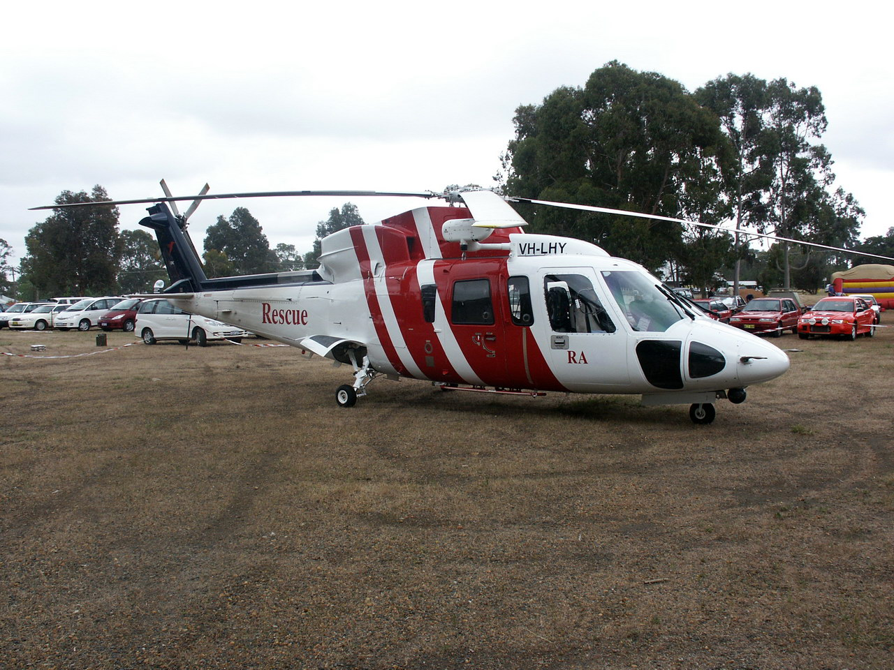 RAAF Sikorsky S-76, Chidlow, Western Australia.